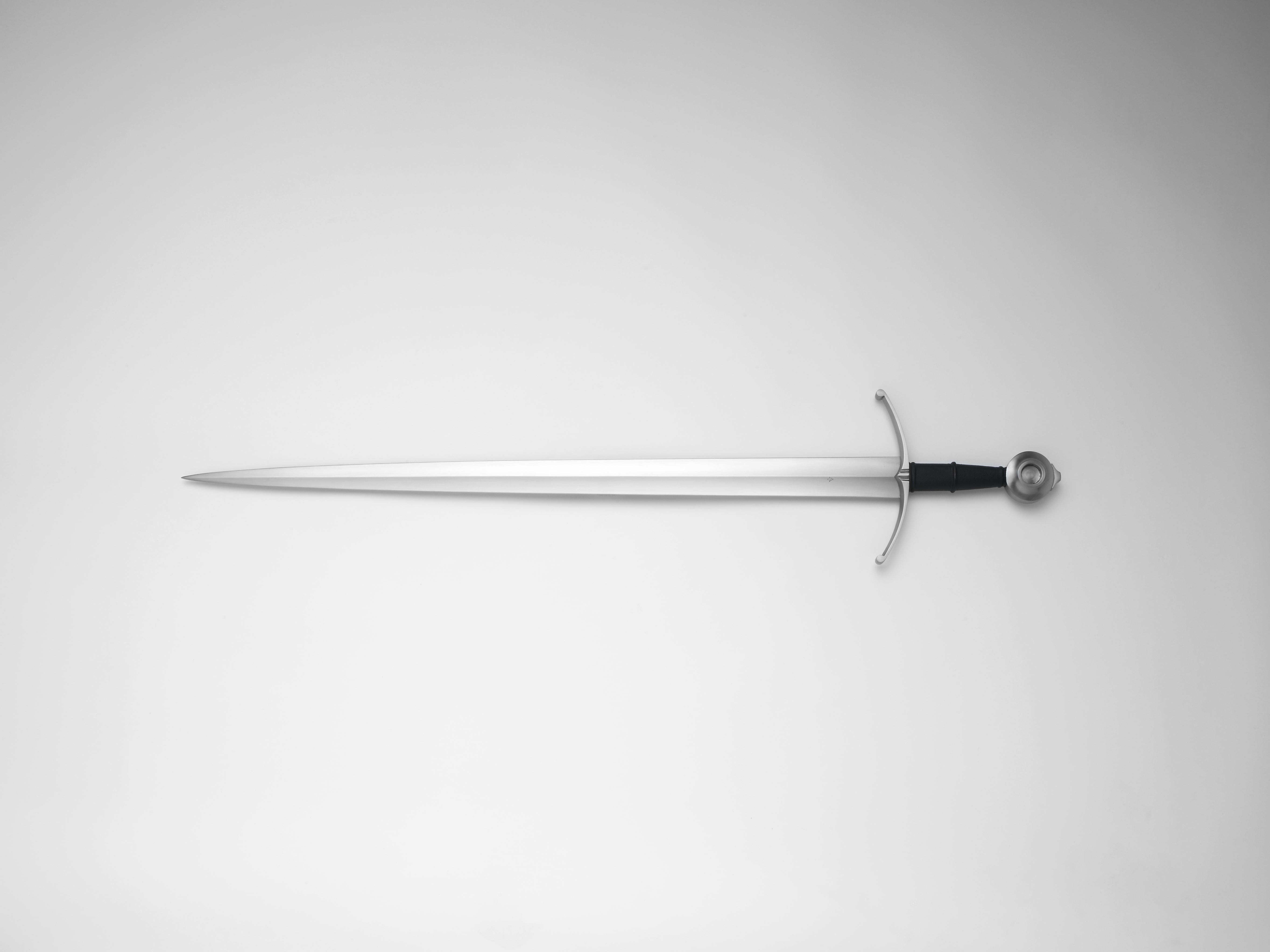 The Kingmaker Limited Edition Medieval Sword